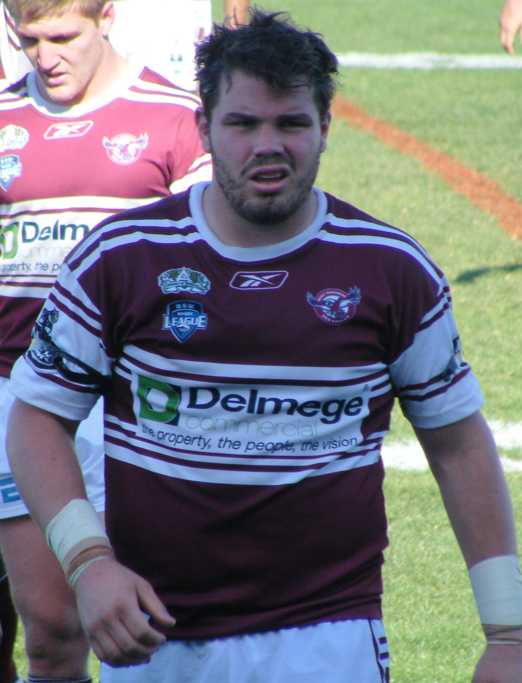 Manly Front row forward